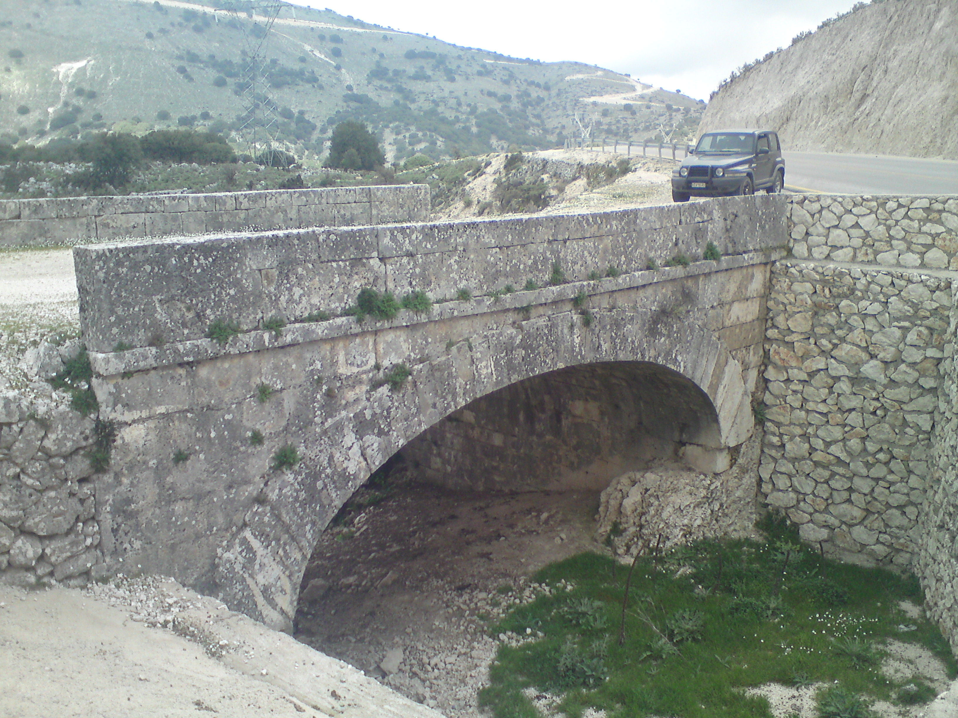 Old stone-built bridge situated just off the new "Falari" road in Kefalonia, Greece. The bridge belonged to the rural road network of the island in the 19th century.